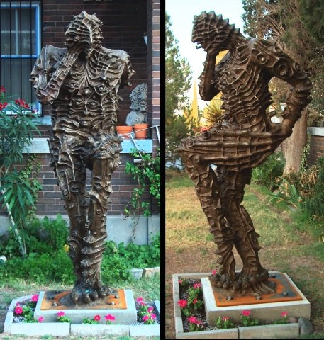 Free Thinker, sculpture by Ho Baron. Bronze, 2003. On permanent display at the Museum of Visionary Art, Baltimore, MD. Article: Ho Baron